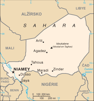 Map of Niger with Czech description.